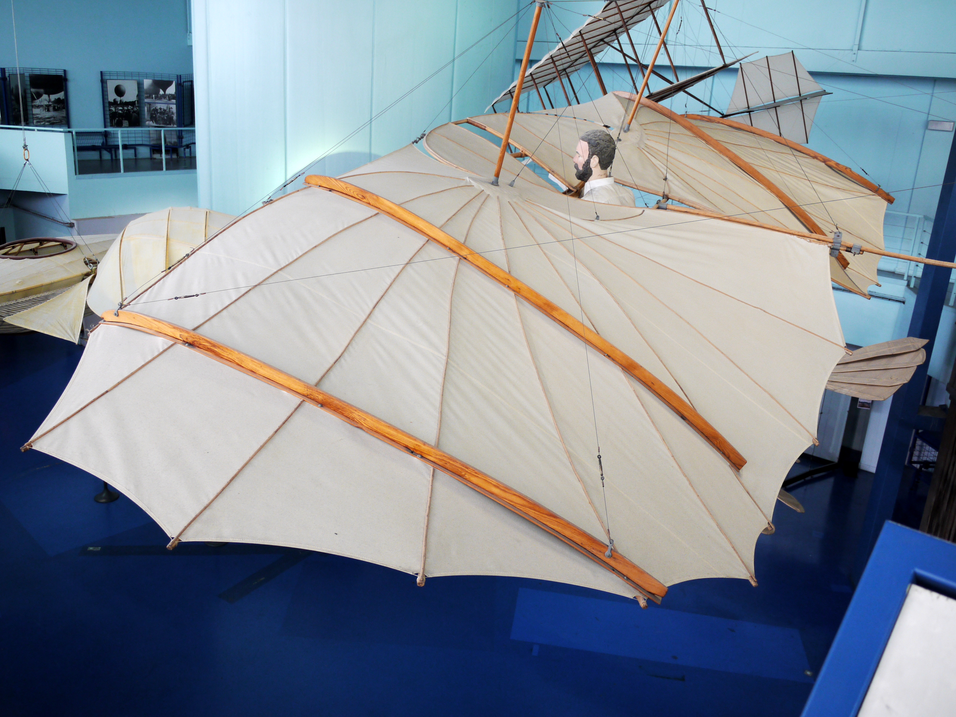 Otto Lilienthal Handglider (1896), Museum of Air and Space Paris, Le Bourget (France)